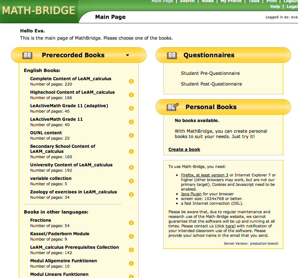 A screenshot of the home page of a Math-Bridge server